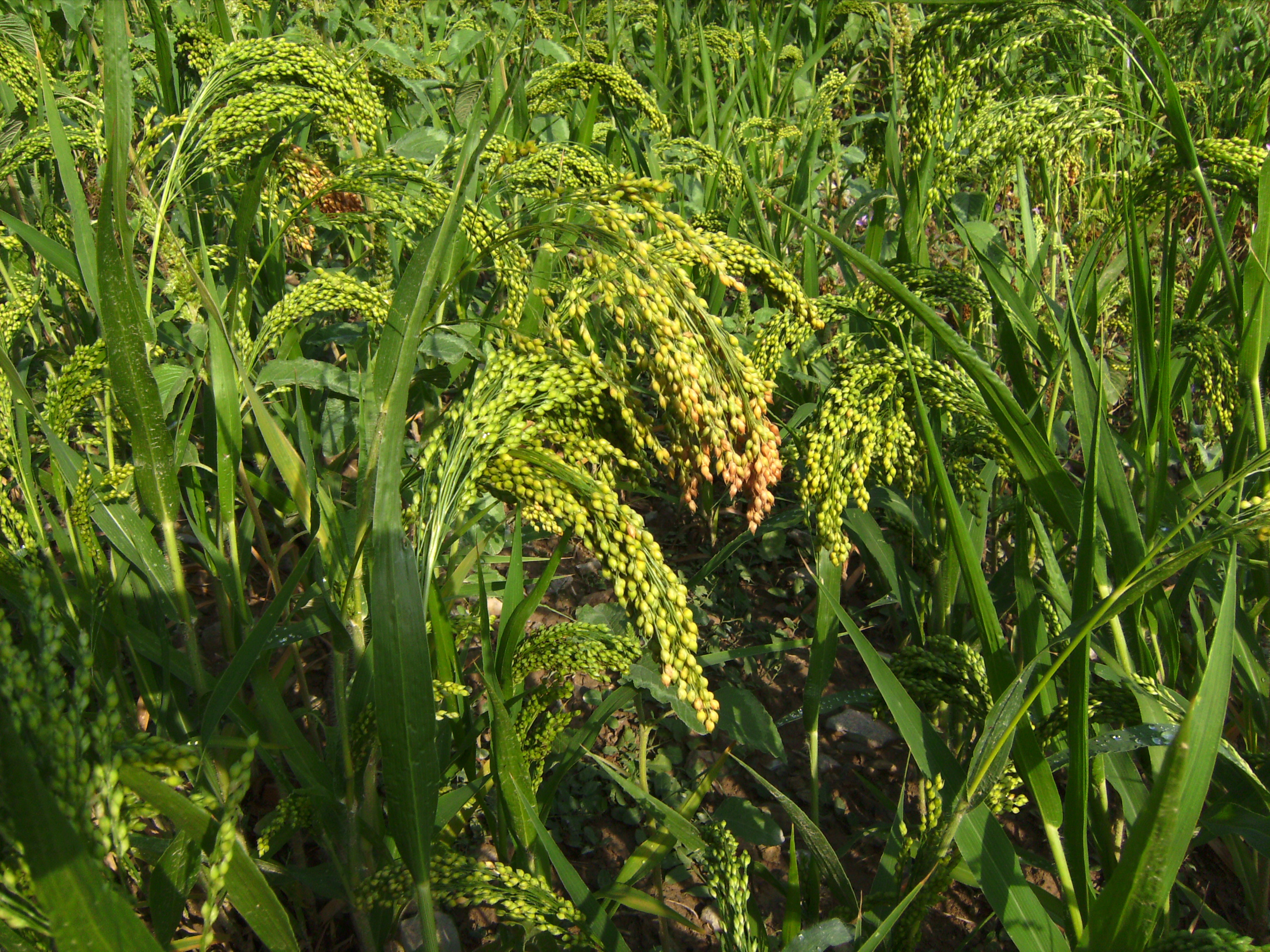 Sudan grass (Sorghum × drummondii)with maturing seeds, Castelltallat, Catalonia